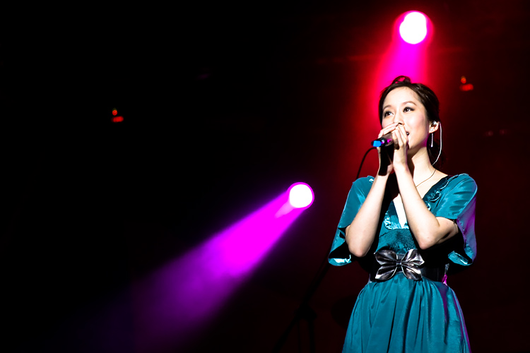 Taiwanese singer Evonne Hsu performing at the 2007 Live Earth China @ Shanghai Oriental Pearl TV Tower